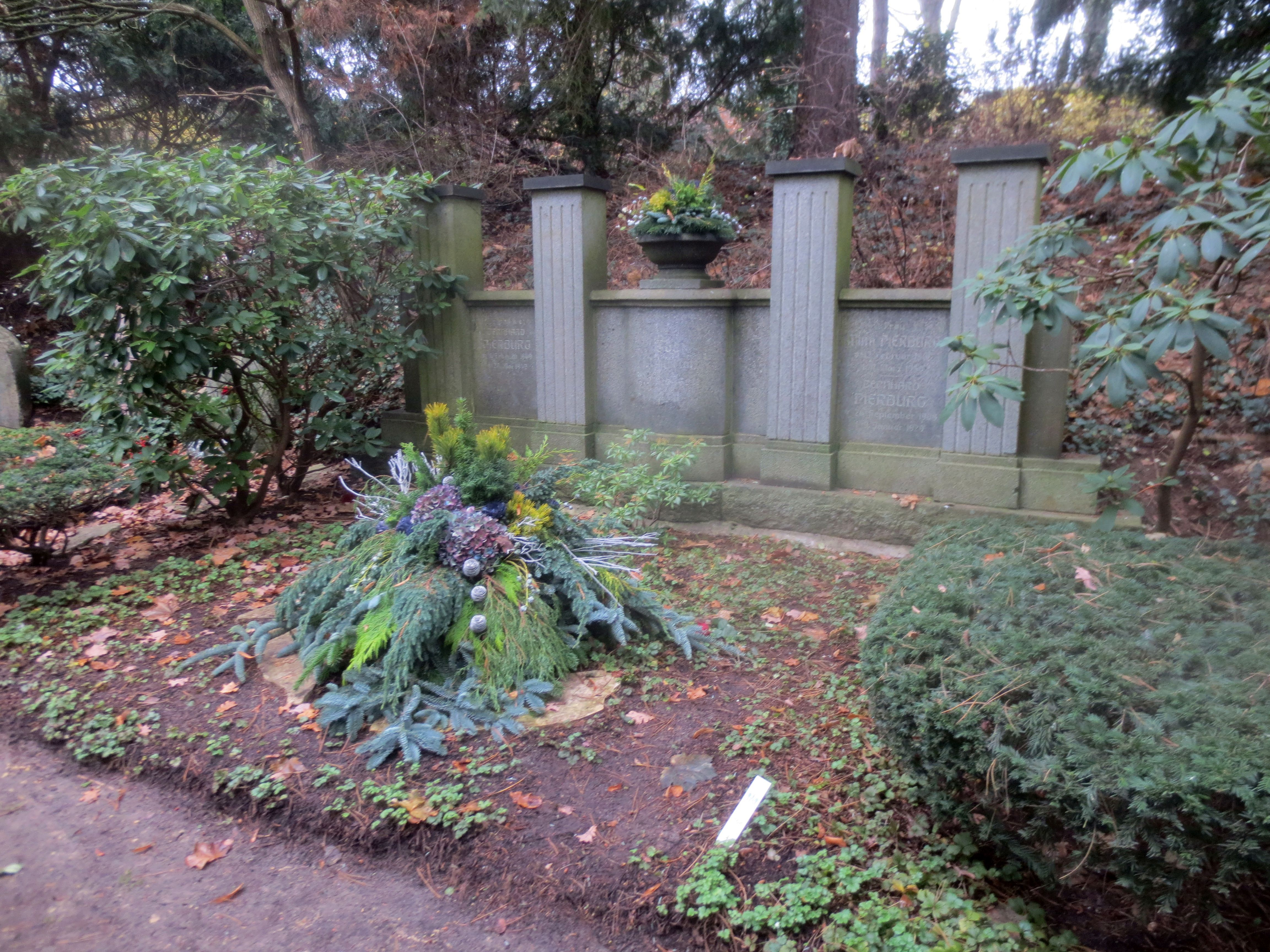 Grave of the wholesaler and entrepreneur Bernhard Pierburg and his family on the Friedhof Heerstraße cemetery in Berlin-Westend.